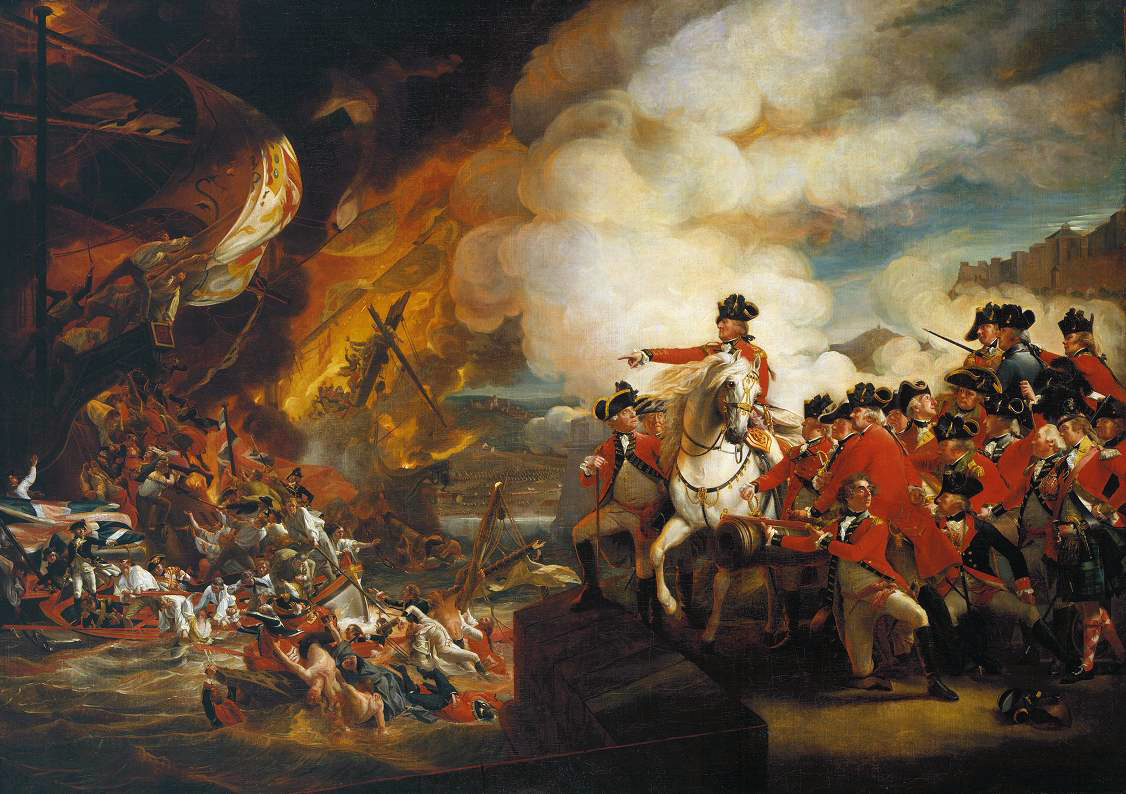 The Siege and Relief of Gibraltar, 13 September 1782".